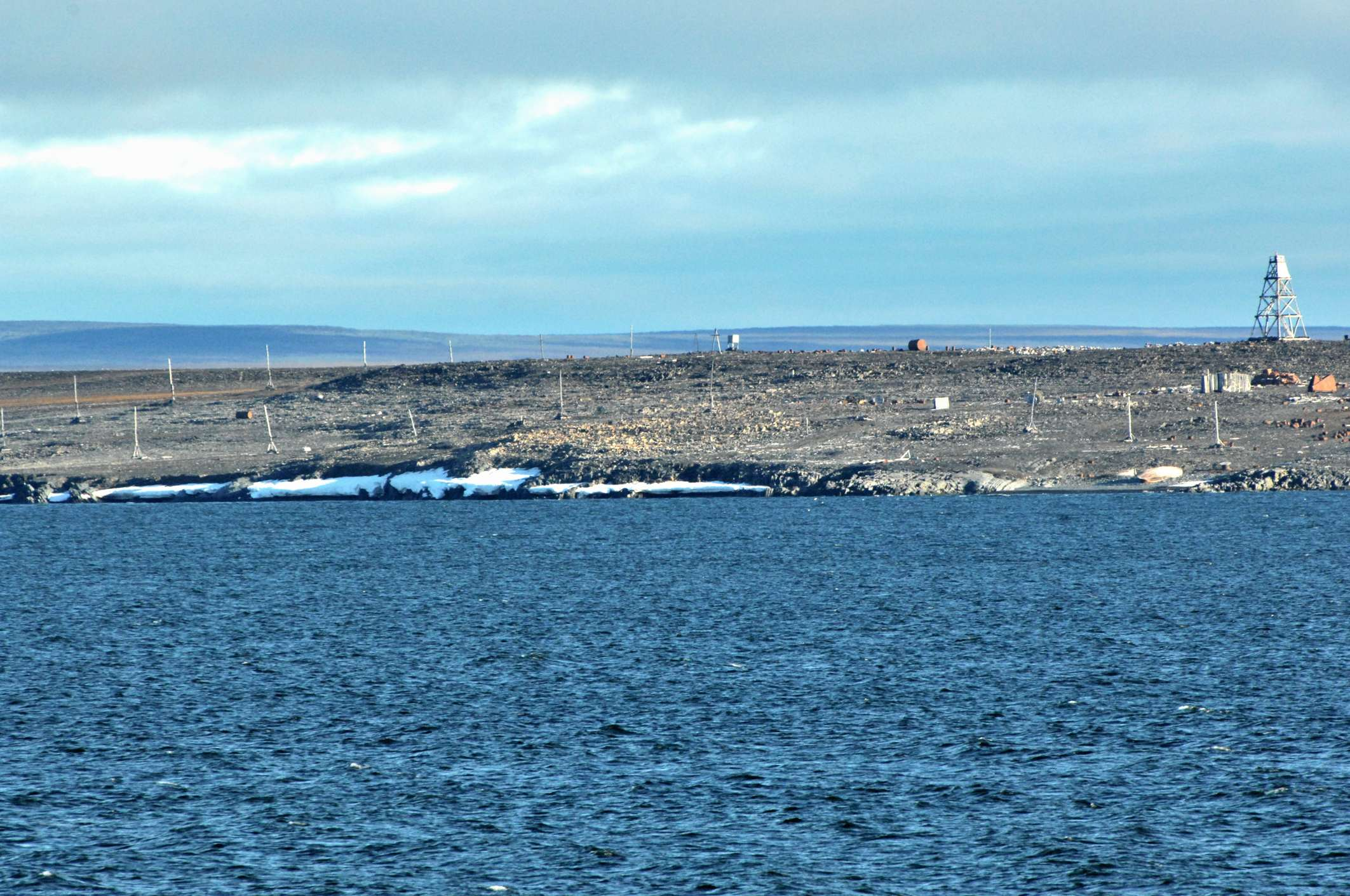 Polar Staton at Cape Chelyuskin (Northernmost point of Russian and of Eurasian mainland; 77°43’22’’N, 104°15’13’’E)